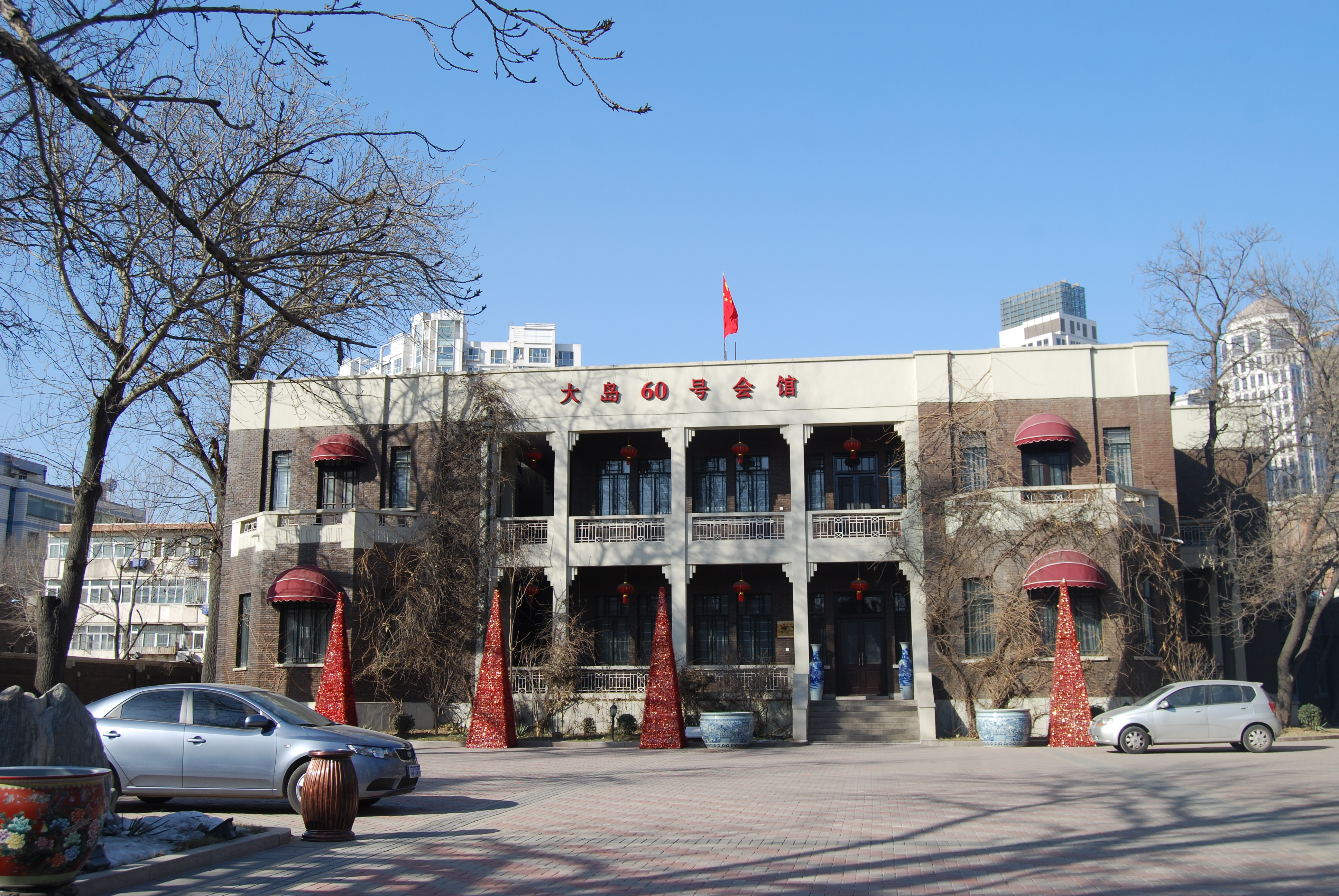 Former home of NRA general Zhang Zizhong (1891–1940) in Chengdu Dao No. 60, Heping District, Tianjin